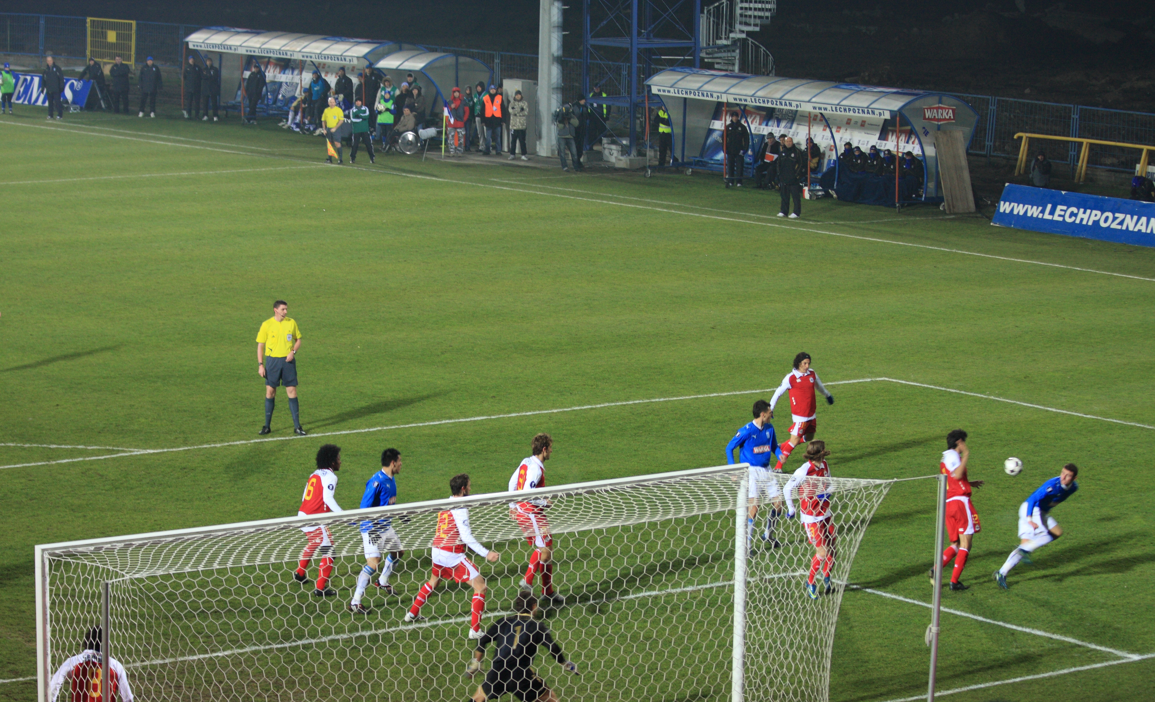 UEFA Cup game: Lech Poznań - Deportivo La Coruña. From left: Sergio González, referee Craig Thomson, Julian de Guzman, Hernan Rengifo, Mista, Daniel Aranzubia, Adrián López, Grzegorz Wojtkowiak, Andres Guardado, Filipe, Juan Carlos Valerón, Jakub Wilk.